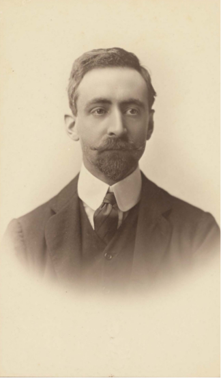 Entomologist George Hudleston Hurlstone Hardy in Hobart